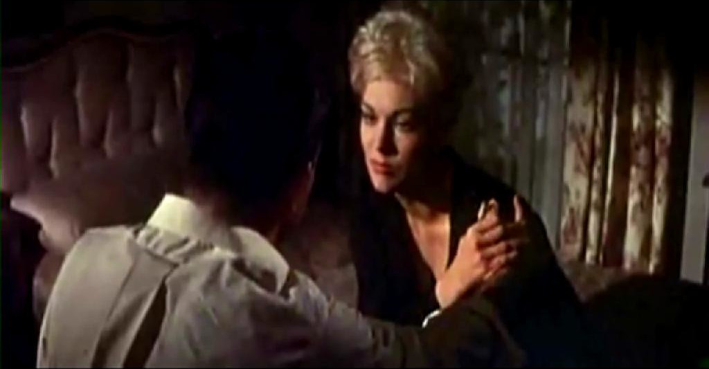 Screenshot from the original 1960 theatrical trailer for the film Strangers When We Meet